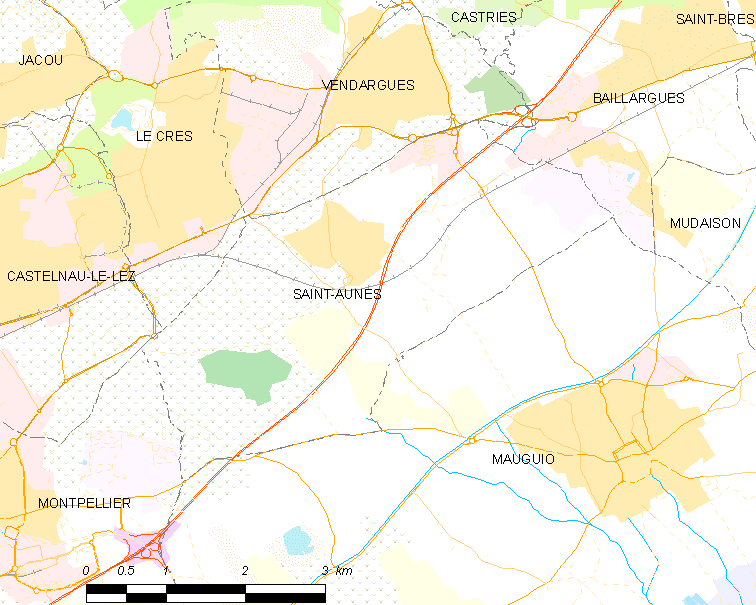 Map commune FR insee code 34240.png - Saint-Aunès